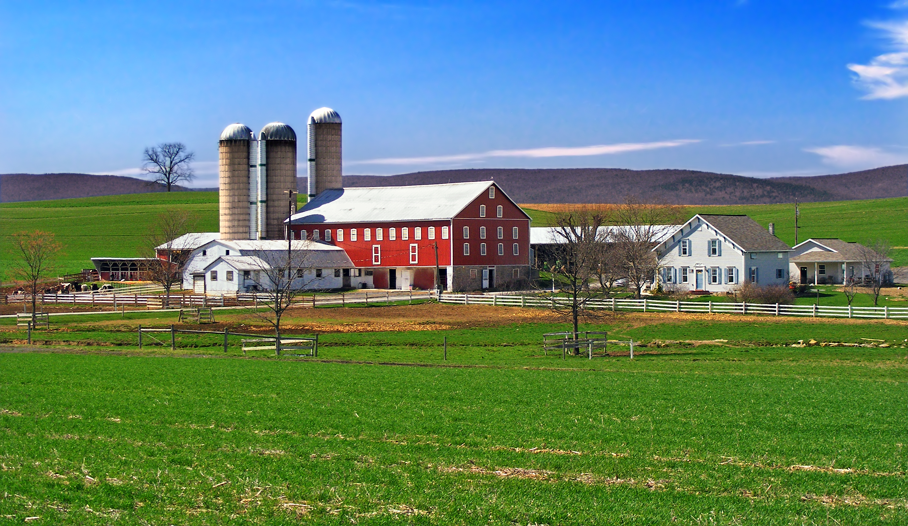 Farmstead, Buffalo Township, Union County, Pennsylvania.